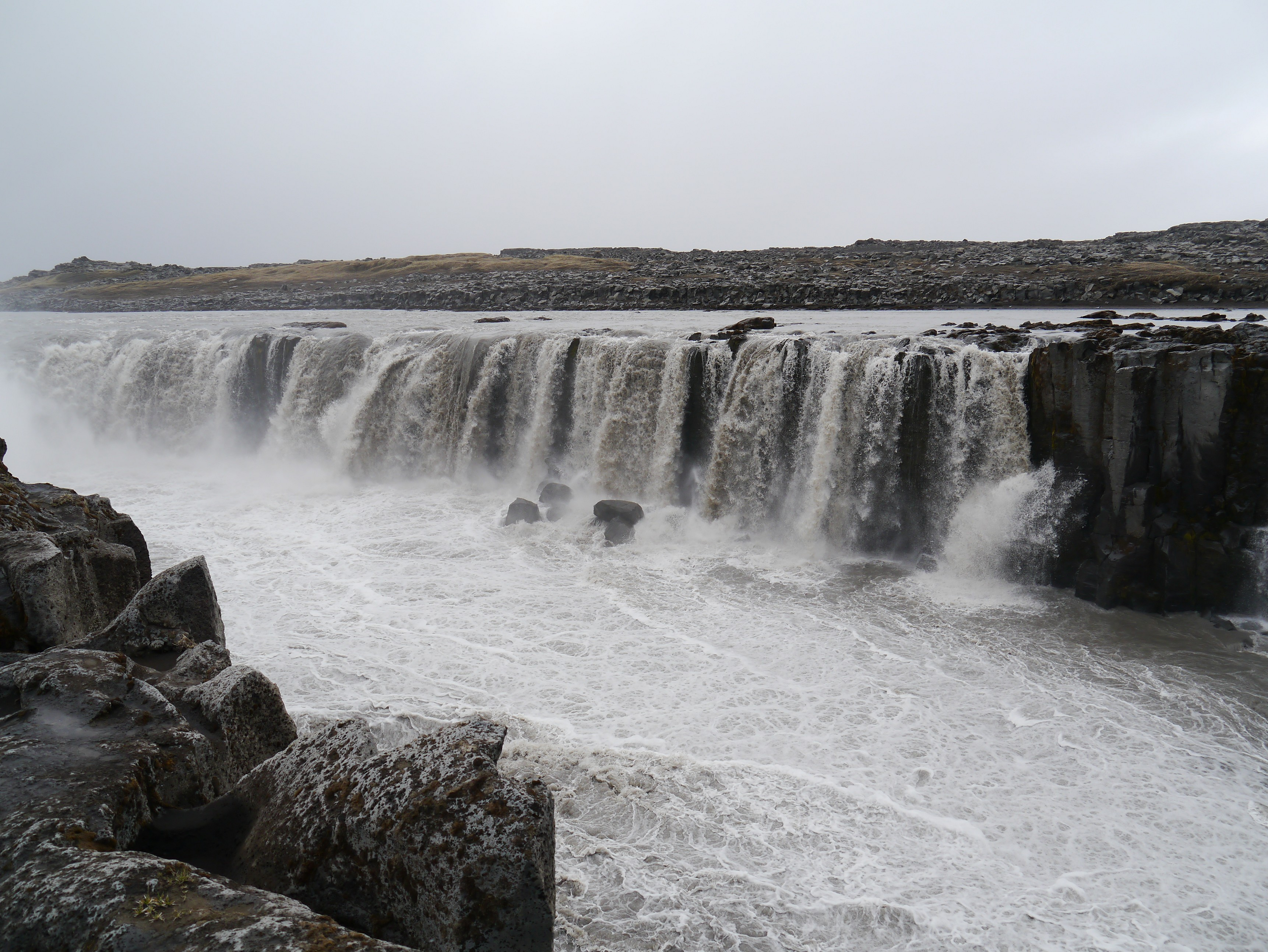 the Selfoss, Northeast Iceland